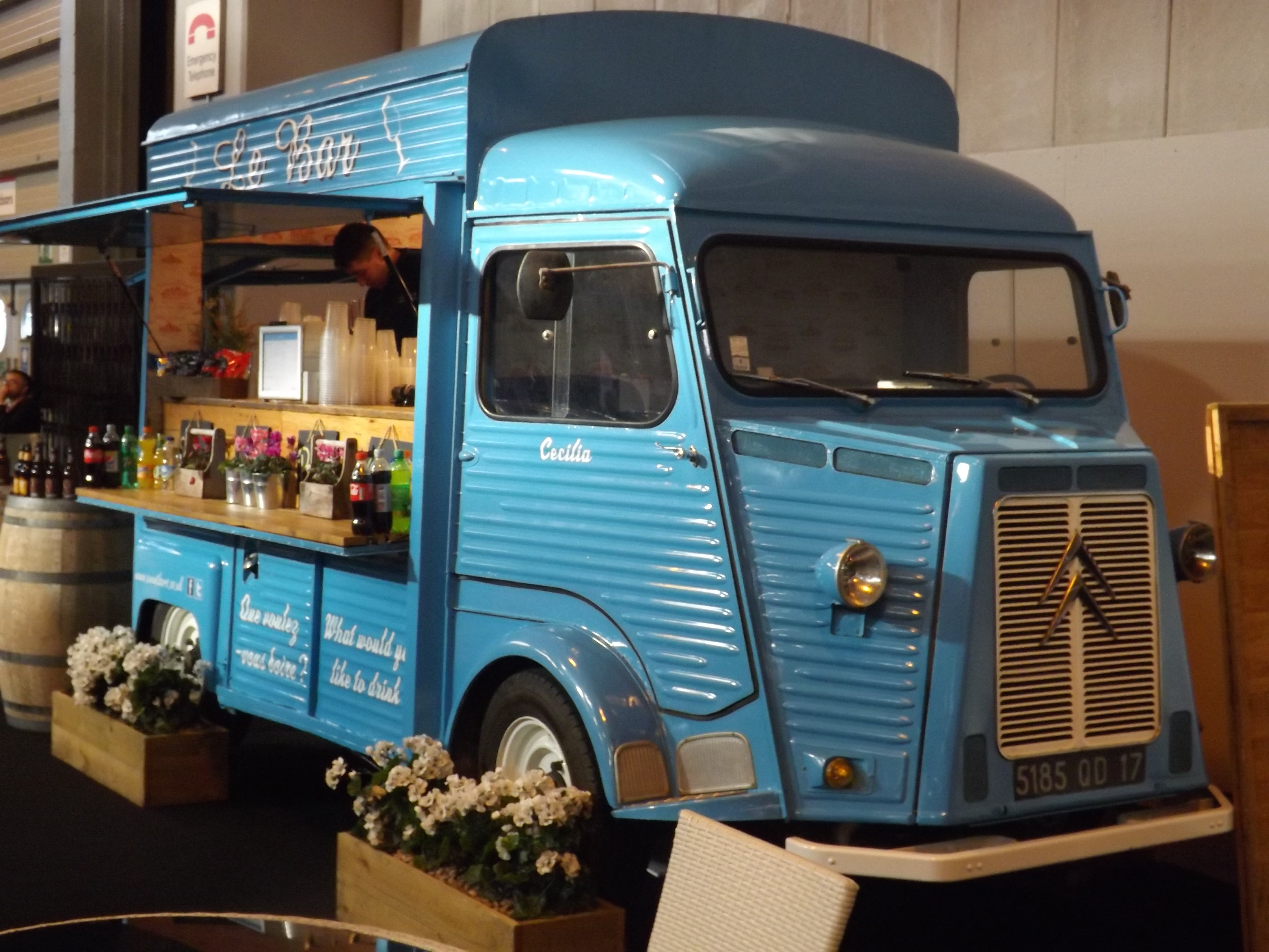 NEC Classic Car Show, 13 November 2015